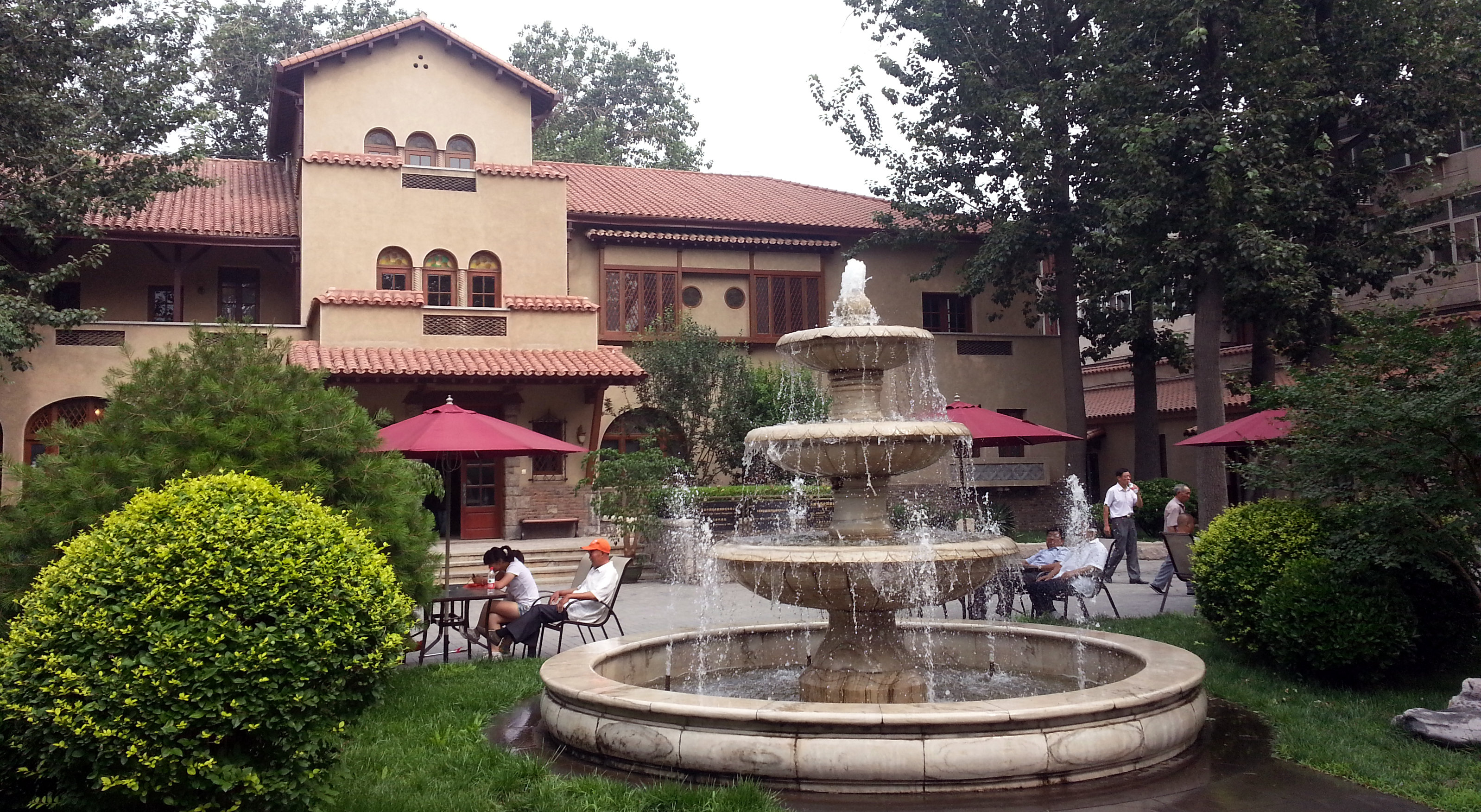 Photograph of the Jingyuan (Garden of Serenity) Mansion, the former residence of the last emperor Puyi in Tianjin, China.